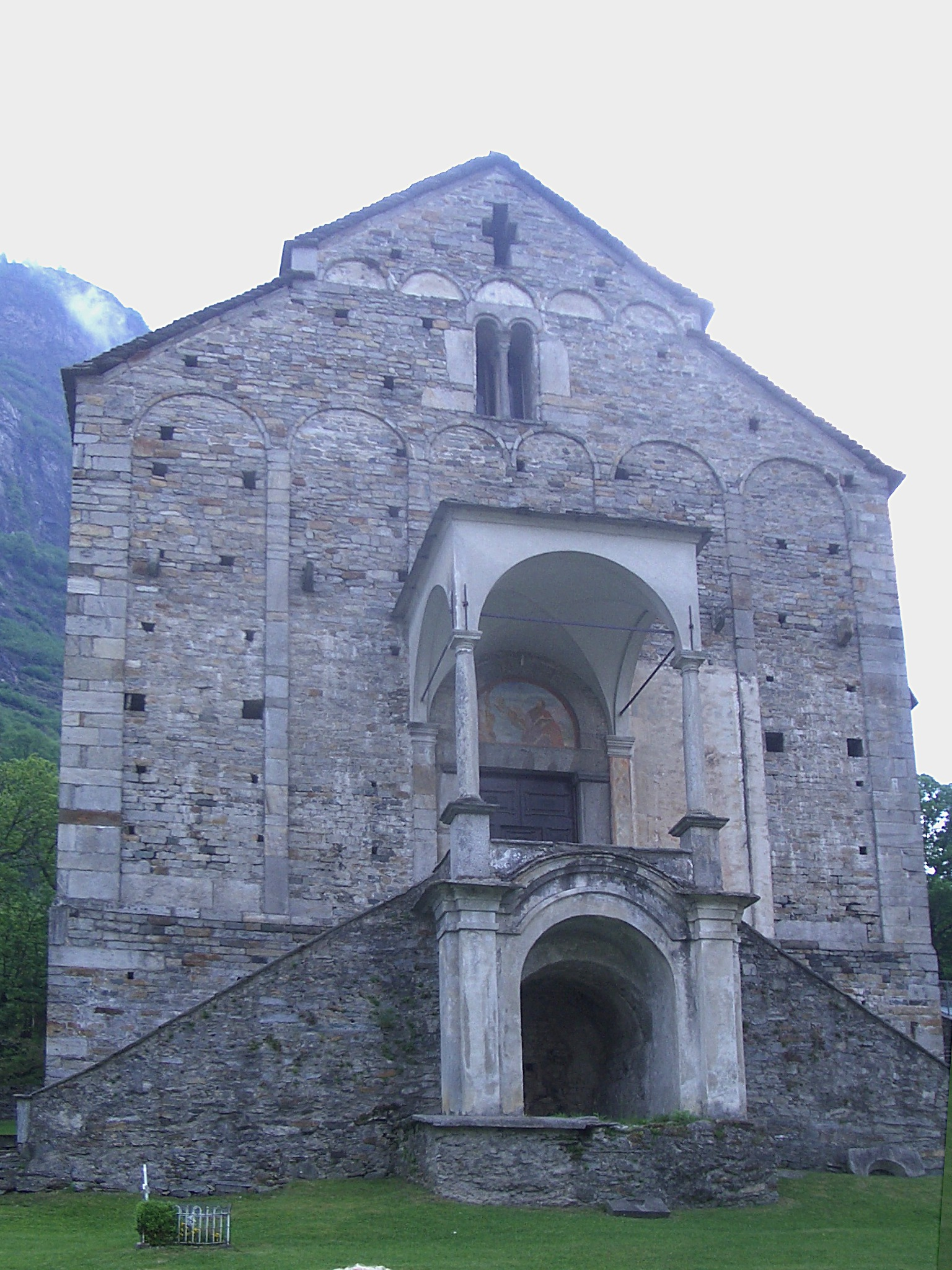 Biasca, St. Peter and Paul church”, facade, XII century